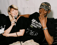 T-shirt design I did for Oxfam Germany's G8 campaign, worn by a lot of the stars perfoming at the 'Konzert auf dem Weg nach Heiligendamm' (Concert on the way to Heiligendamm). Photo credits: Cornelius Zoch/Oxfam You can read more about the concert at